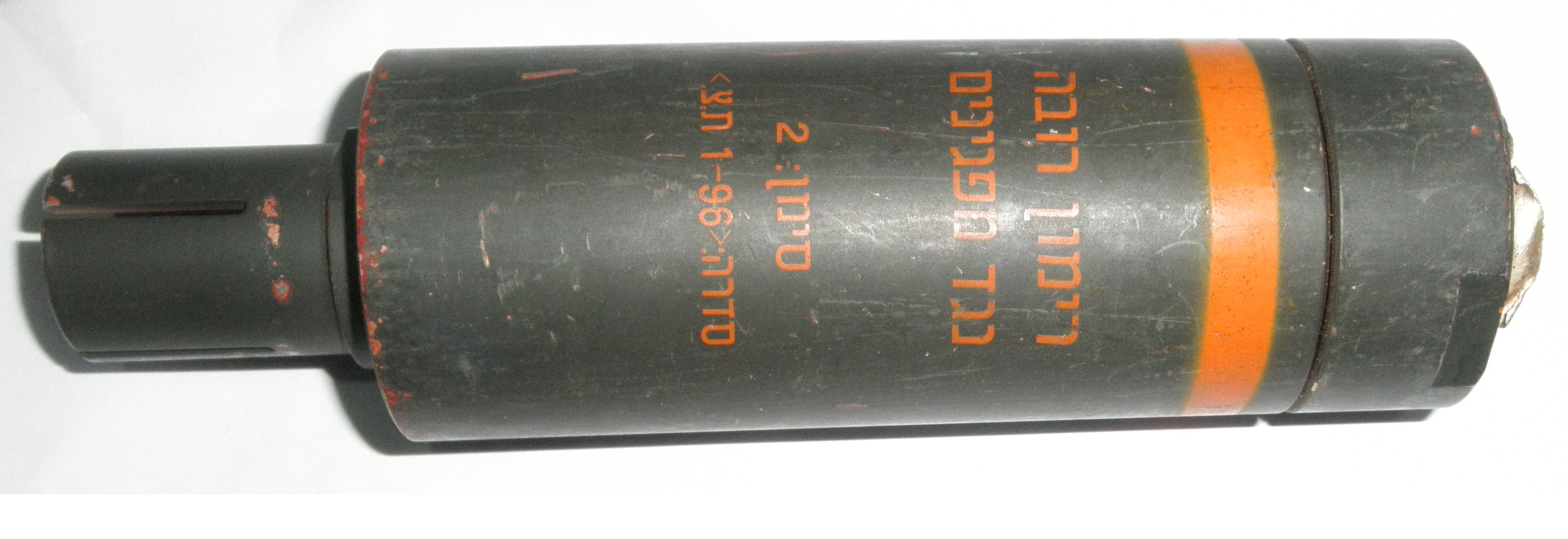 Rubber ball grenade used against Palestinian protesters. the Hebrew writing: " grenade against demonstrators"